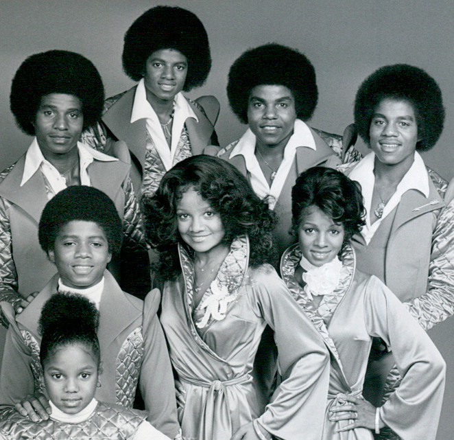 The Jackson siblings from their television program The Jacksons.Front, from left: Janet, Randy, La Toya, Rebbie.Back, from left: Jackie, Michael, Tito, Marlon.Note: Jermaine was not part of the television program due to contractual issues and is not pictured.